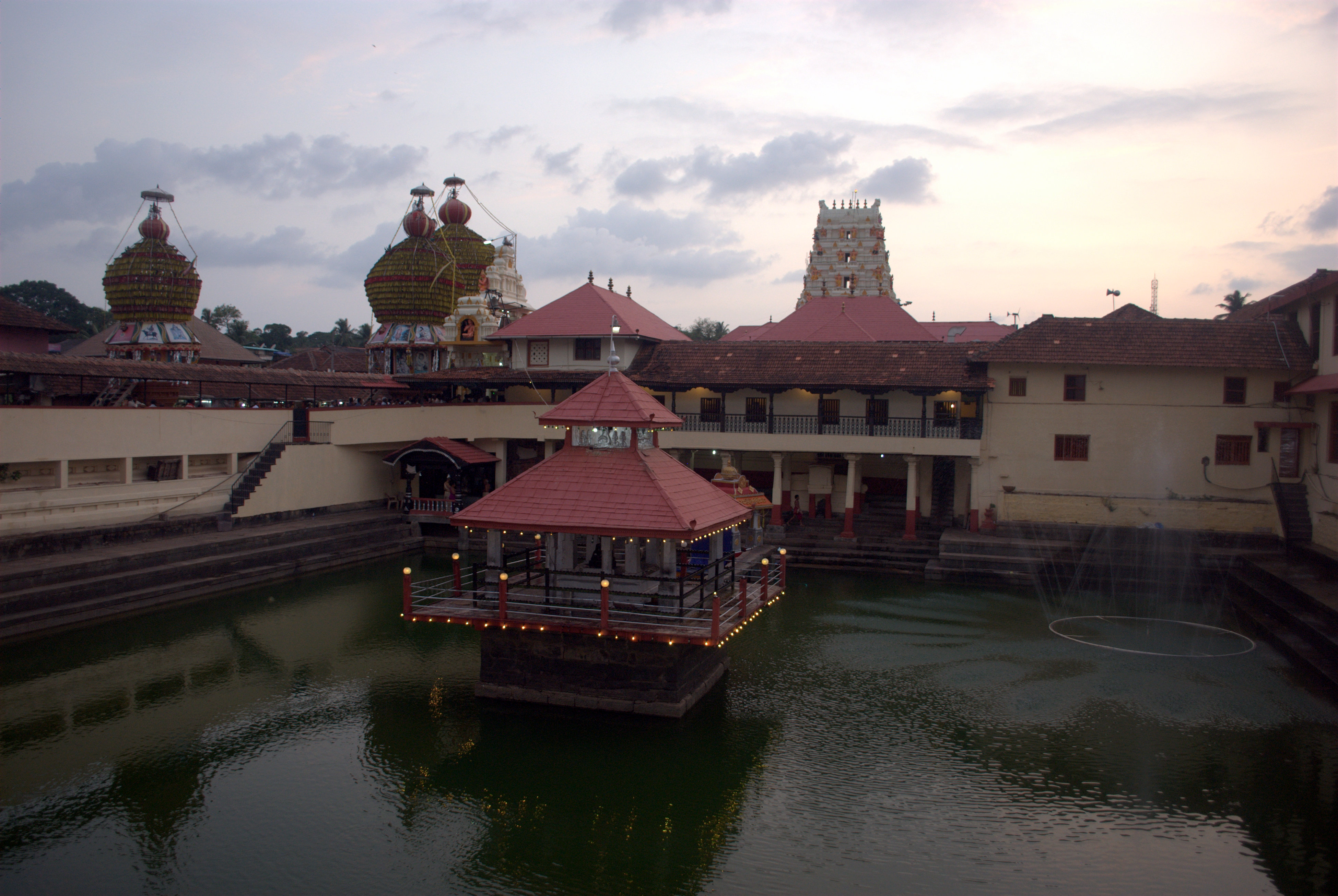 Udupi Sri Krishna Temple. The Udupi Sri Krishna Temple and Matha. This has been in existence for over 1500 years, while the Matha (or Monastery) was established in the 13th century, Udupi.